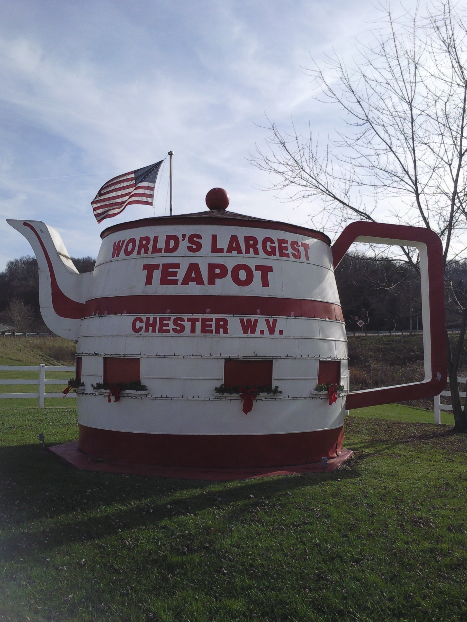 Photograph of the Chester Teapot in Chester, WV.